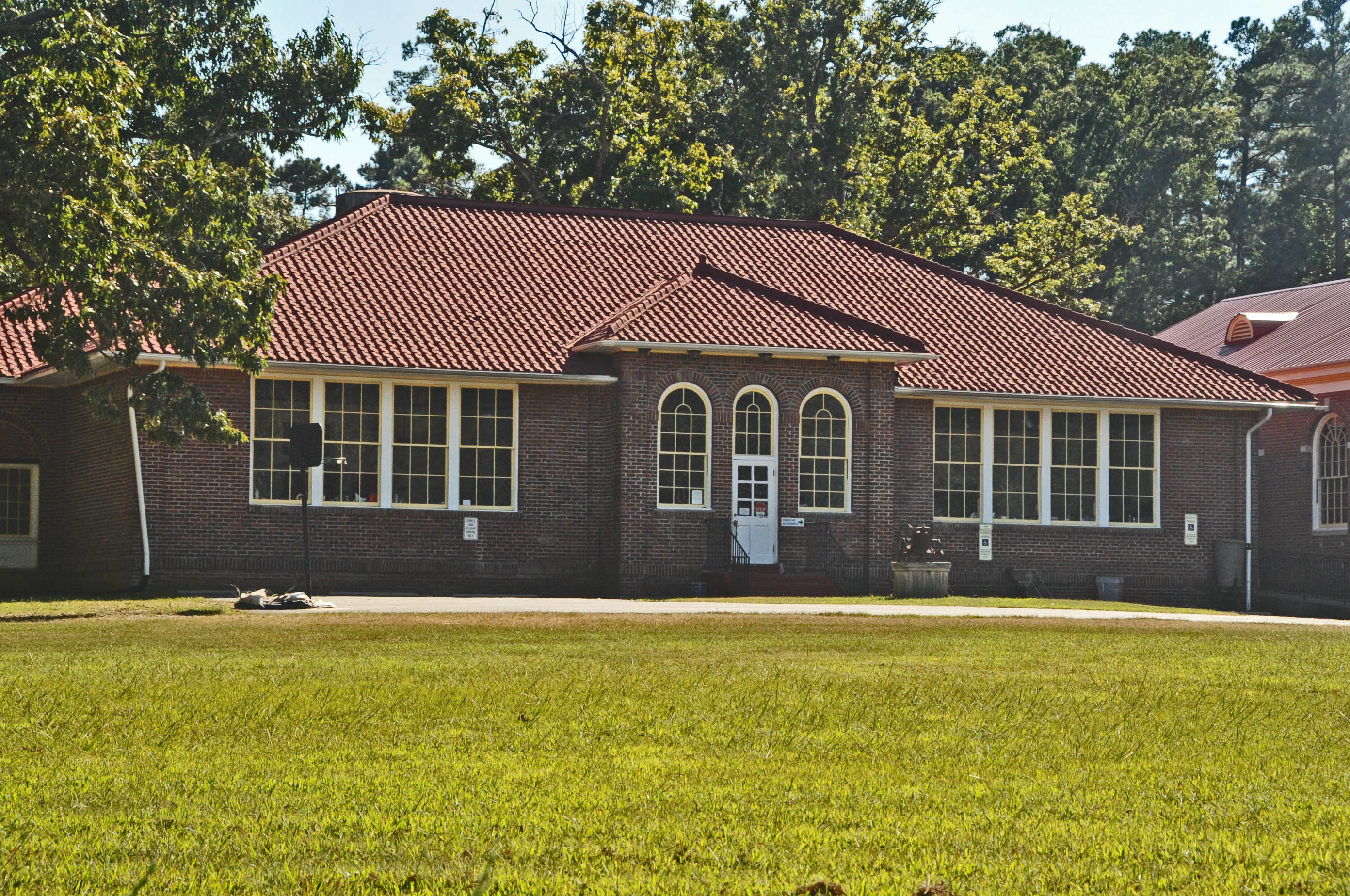 The eastern portion (shown in this picture) is the school (1923) and is in Spanish Revival, and the western portion is Classical Revival (1936).